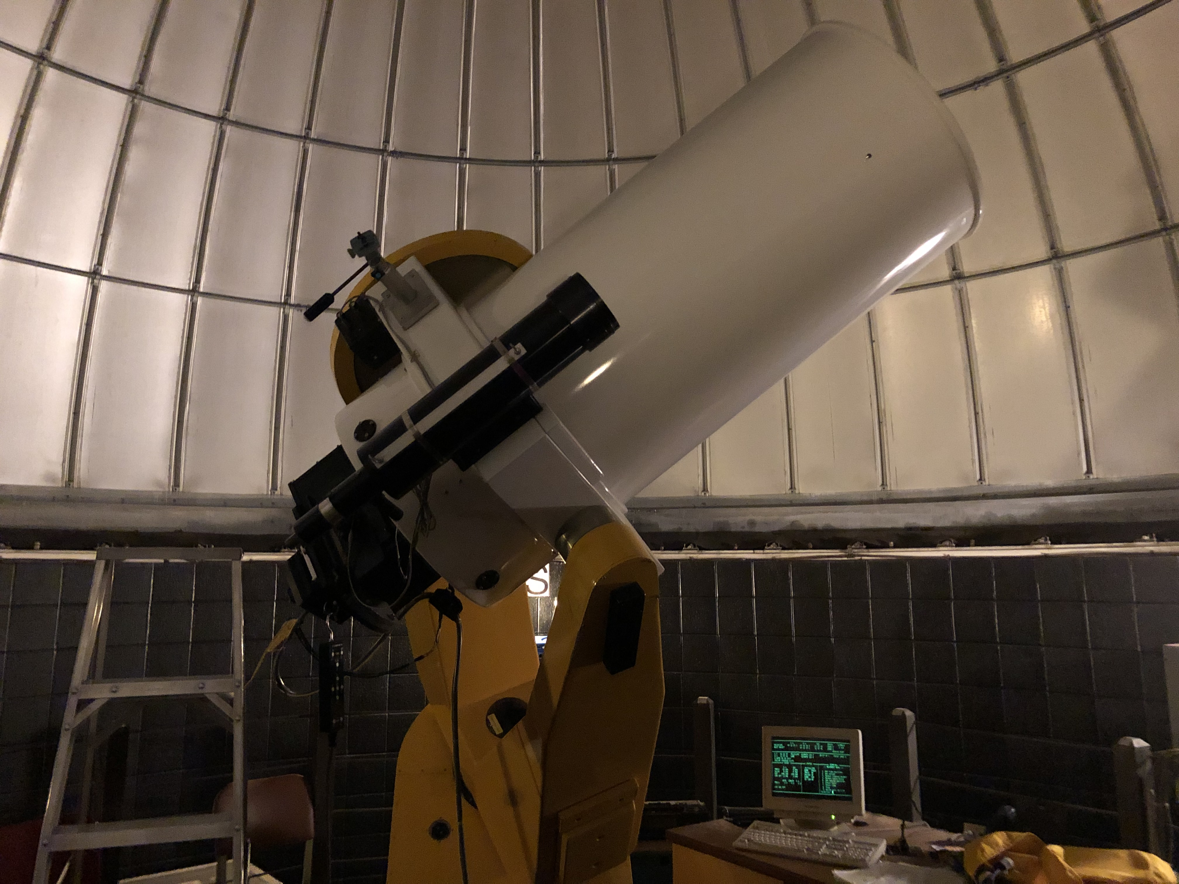 Half meter reflecting telescope at Bowling Green State University, with CCD attached. Installed ~1985. CCD attached. Nicknamed "Stella"